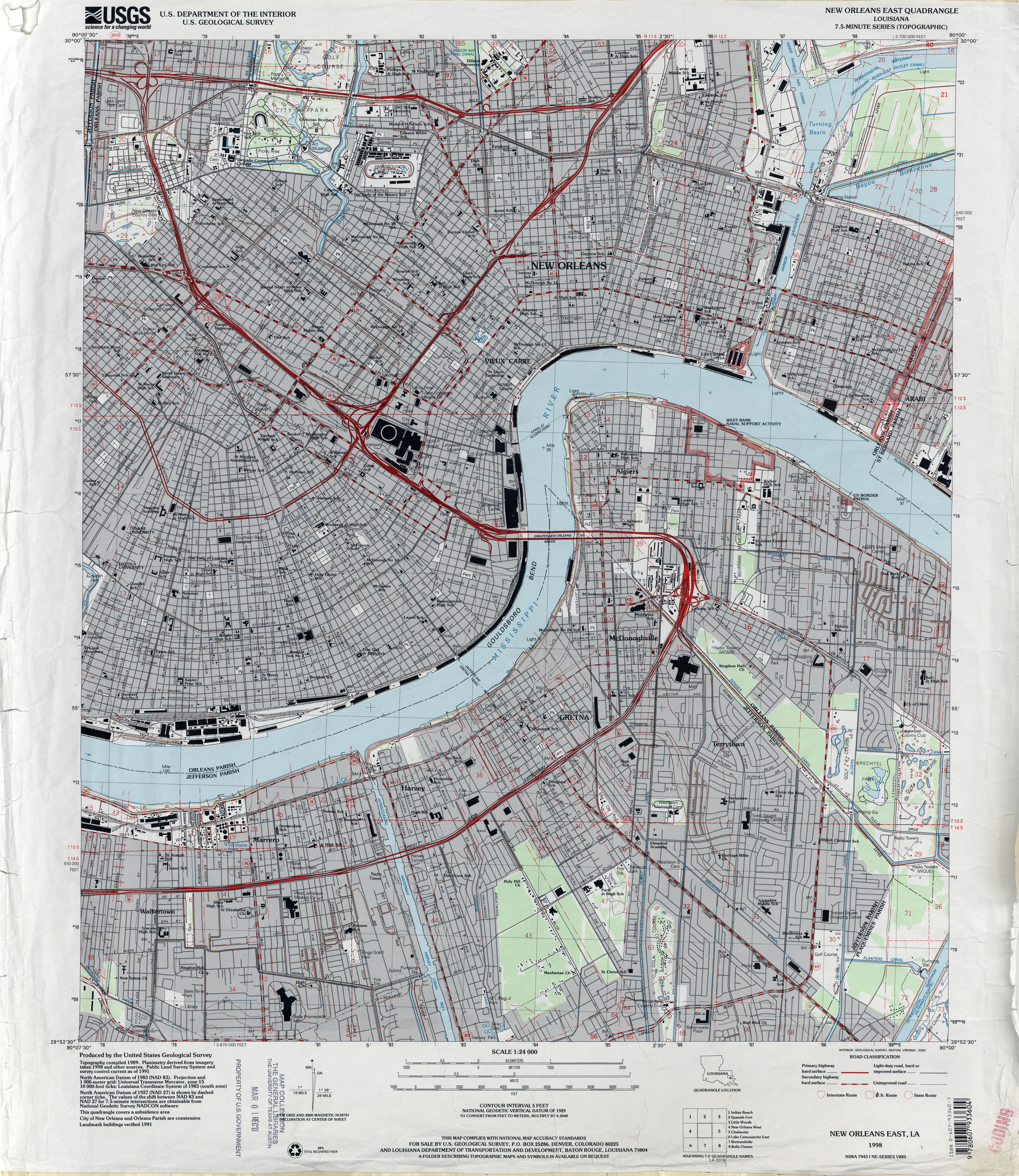 1998 map of New Orleans, showing the section of the city closer to the Mississippi River, from about Mid-City to just below Audubon Park to the Lower 9th Ward, together with Algiers and the West Bank Jefferson Parish suburbs including Marrero, Harvey, Gretna.